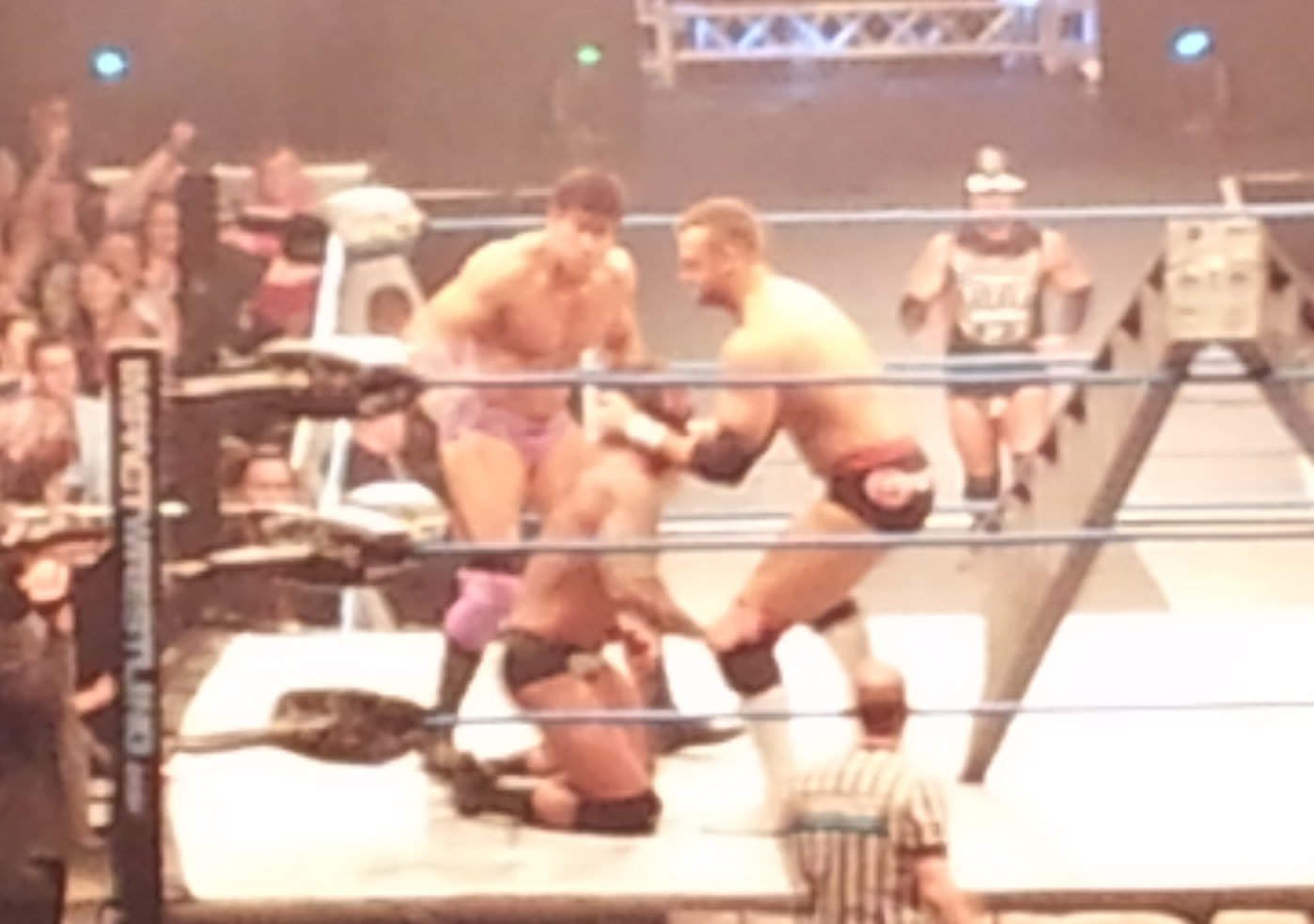 TNA Maximum Impact VI Tour – 31st January 2014 – Phones 4 U Arena, Manchester